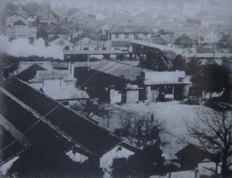 Old Changsha Station